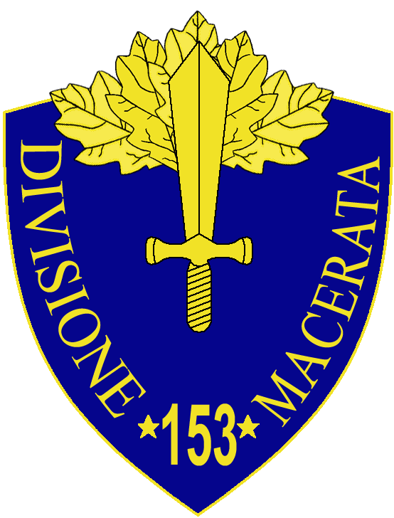 153a Divisione Fanteria Macerata insignia, Regio Esercito, Italy, WWII